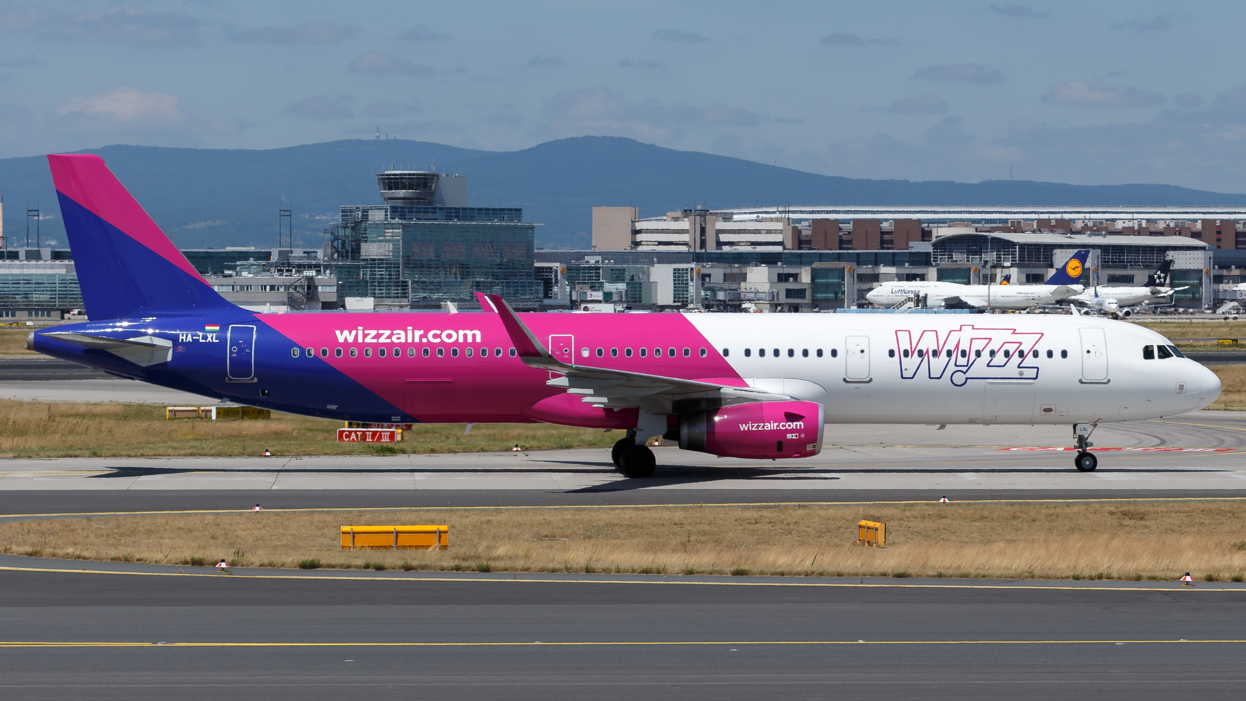 Wizz Air Airbus A321-231 at Frankfurt Airport